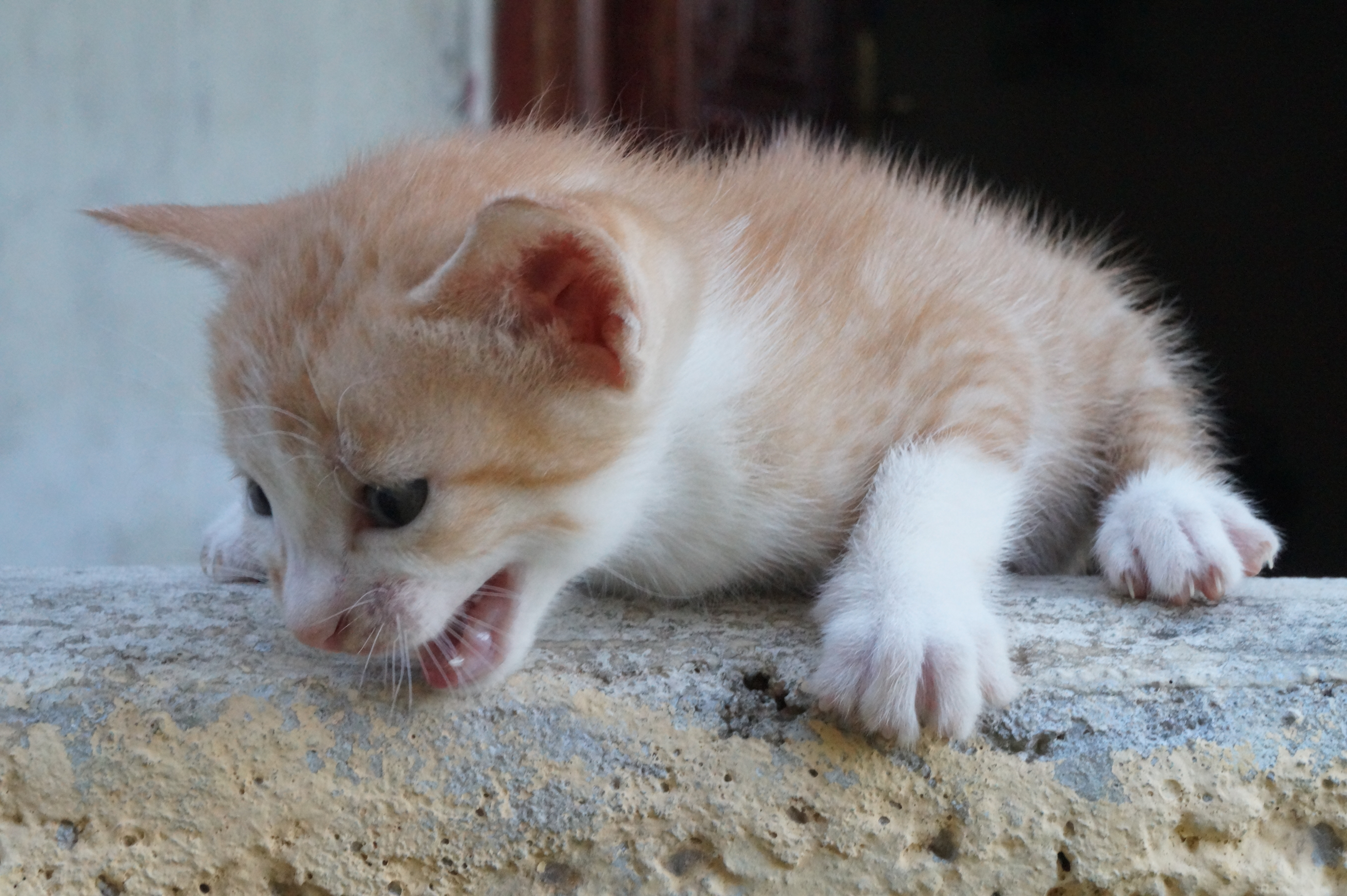 goosebumps in a cat due to fear of heights